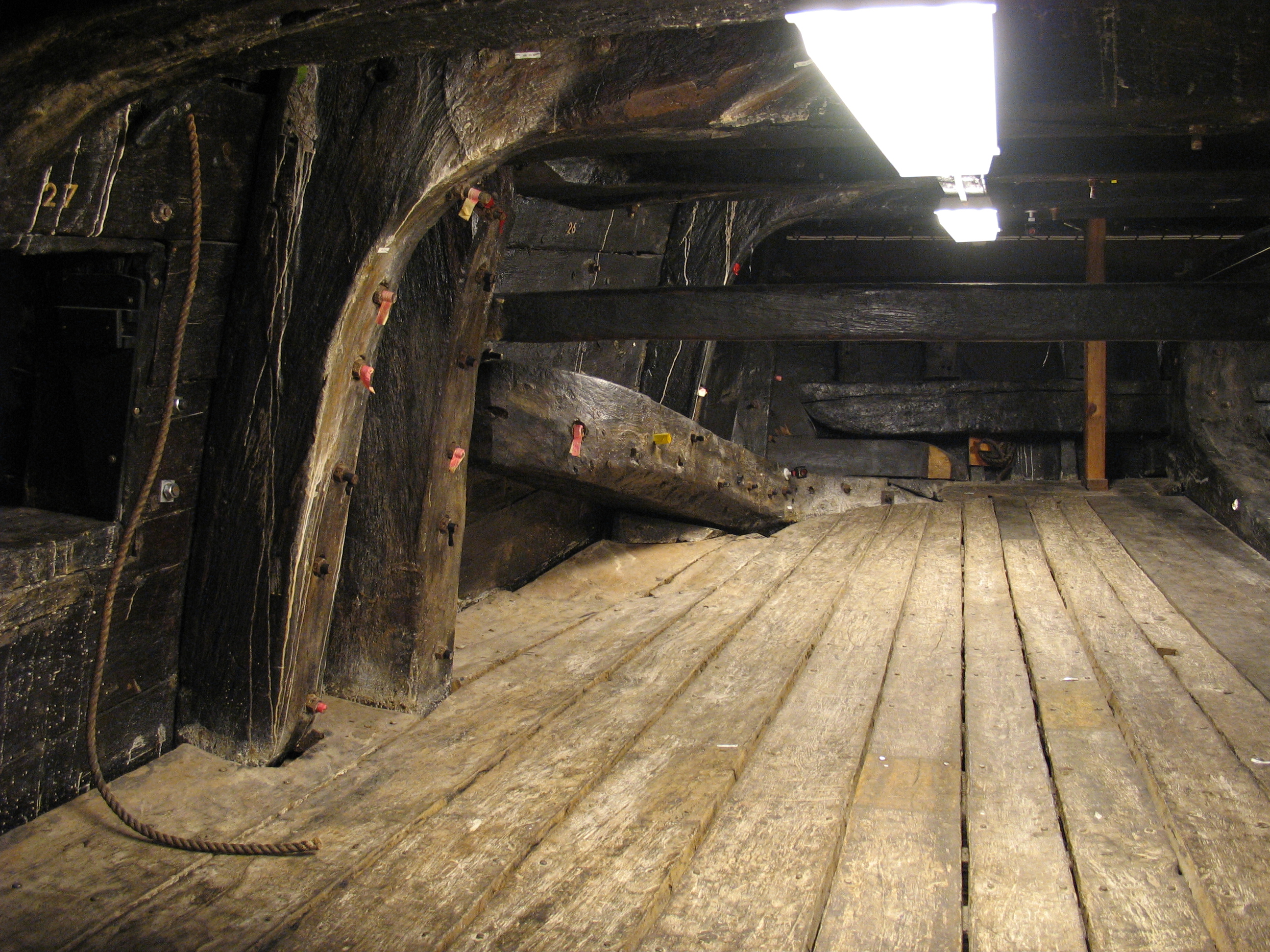 Tiller room of the warship Vasa, displayed in the Vasa Museum in Stockholm, Sweden. Picture taken from inside the ship (lower gun deck) looking aft.